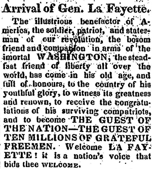 Woodstock Observer Aug 24 1824